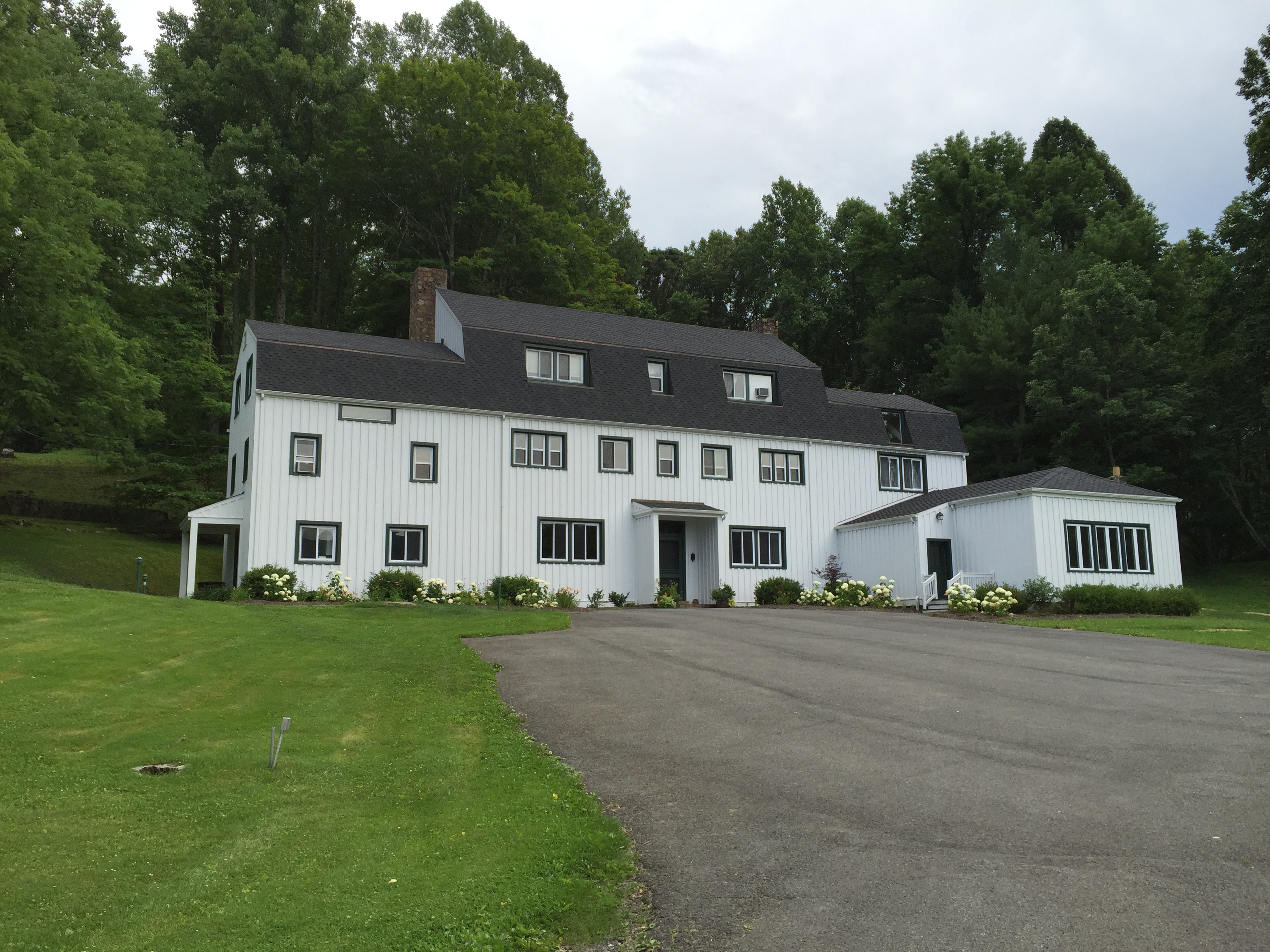 Garth Newel in Hot Springs, Virginia in 2016